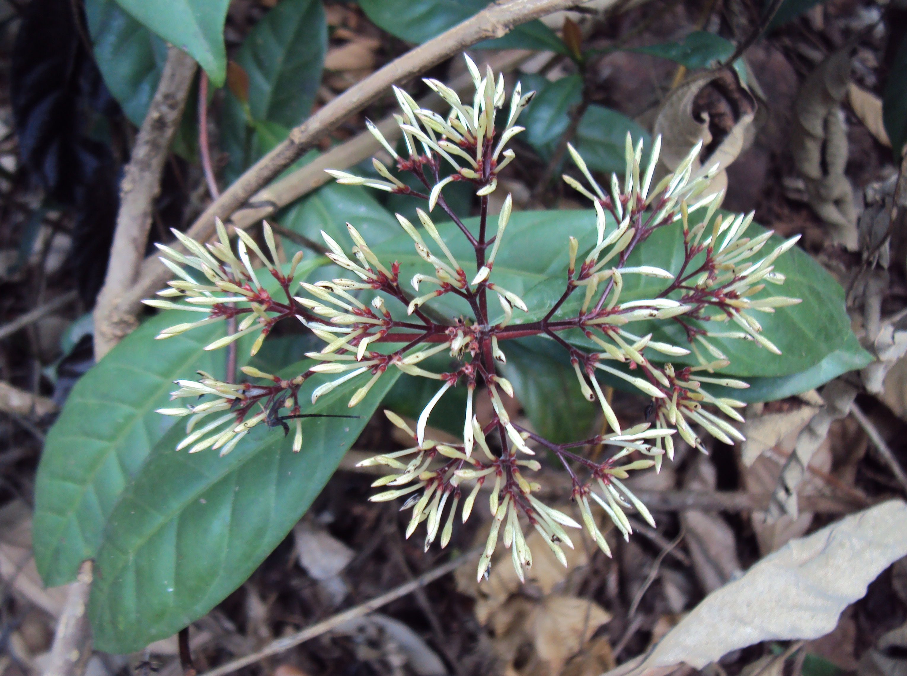 Ixora nigricans R.Br. ex Wight & Arn.